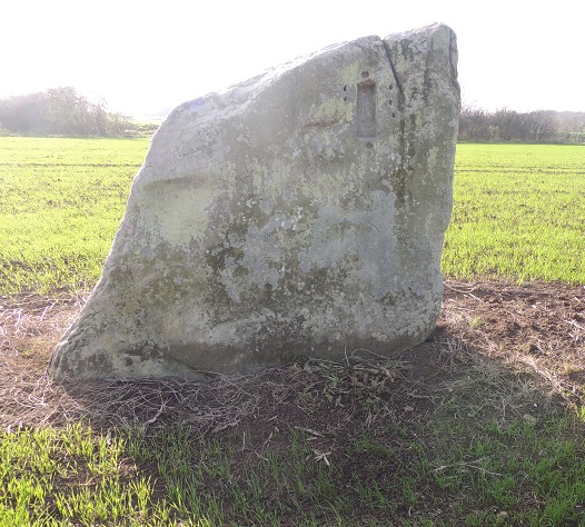 Pierre Couvée, rectangular-shaped menhir in a little herbs field with a niche and holes dug in the top right corner